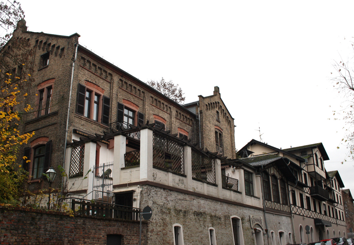 Sonnenberger Str. 80a, b,c